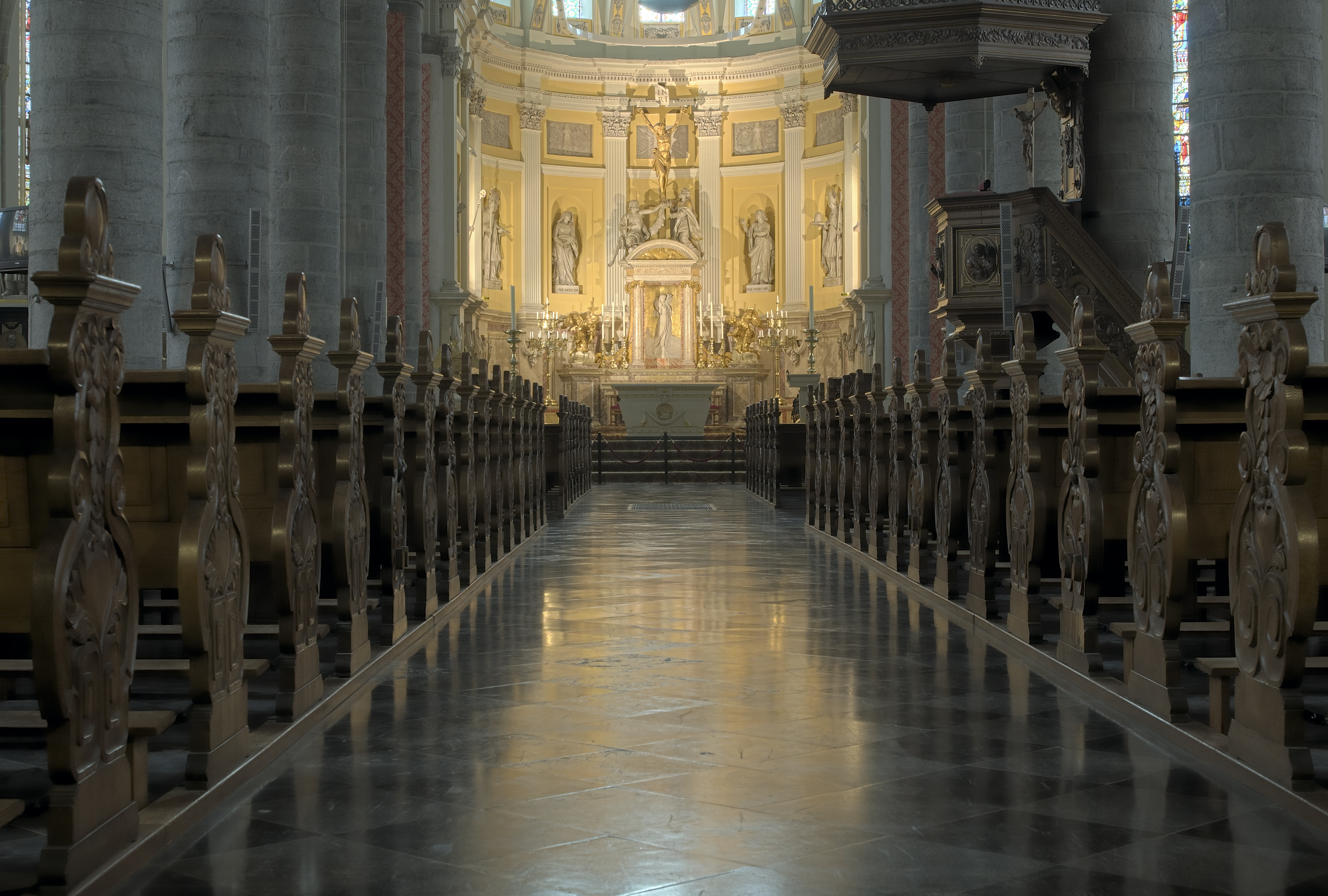 Sint-Martinuskerk (Saint Martinchurch), Weert, the Netherlands. Interior: Nave with view to altar.